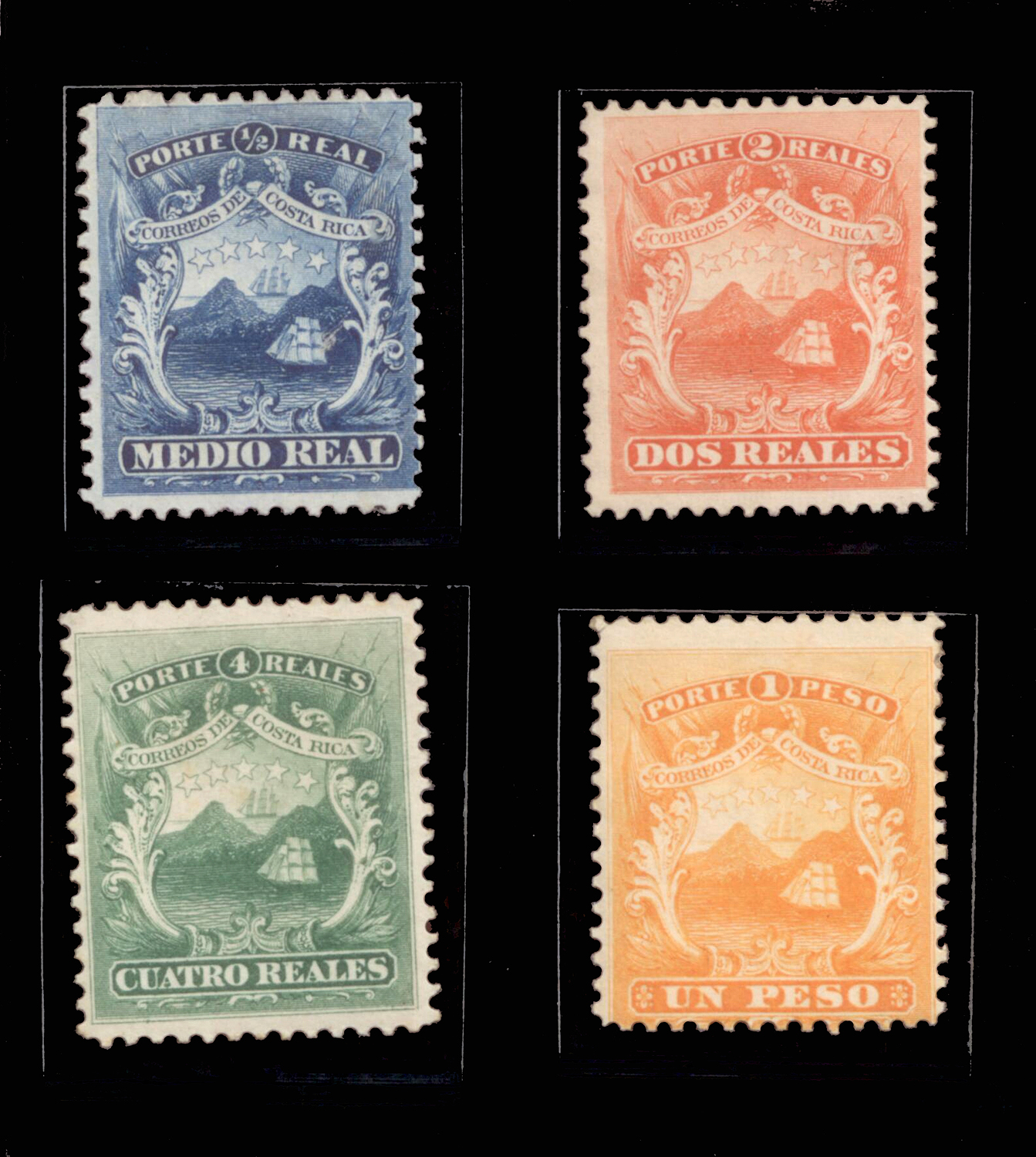 Series of the first four postal stamps issued in Costa Rica in 1863. The 1/2 Real (blue) was the first to actually circulate in the country